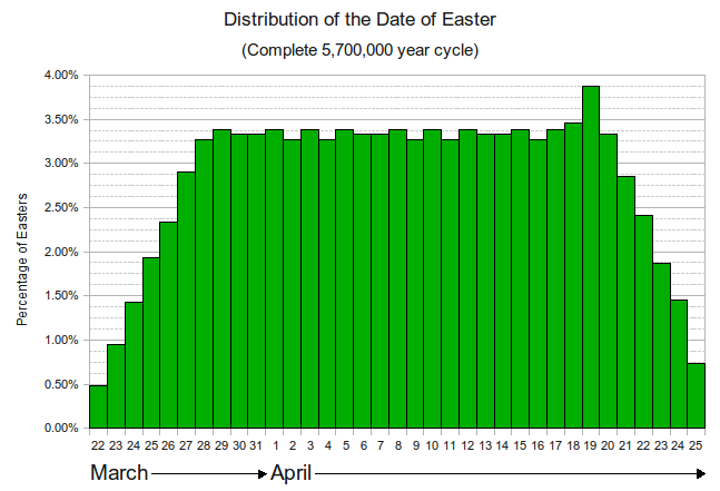 Bar chart of the distribution of Easter Dates for the complete 5,700,000 Gregorian years. 19 April is the date on which Easter falls most frequently in about 3.87% of the years. 22 March is the least frequent, with 0.48%.（computus